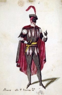 Costume design for the title role of Saverio Mercadante's opera Il bravo. The design was for the production in Naples at the Teatro San Carlo on 17 October 1840. The role of "Il bravo" was sung on that occasion by Domenico Reina